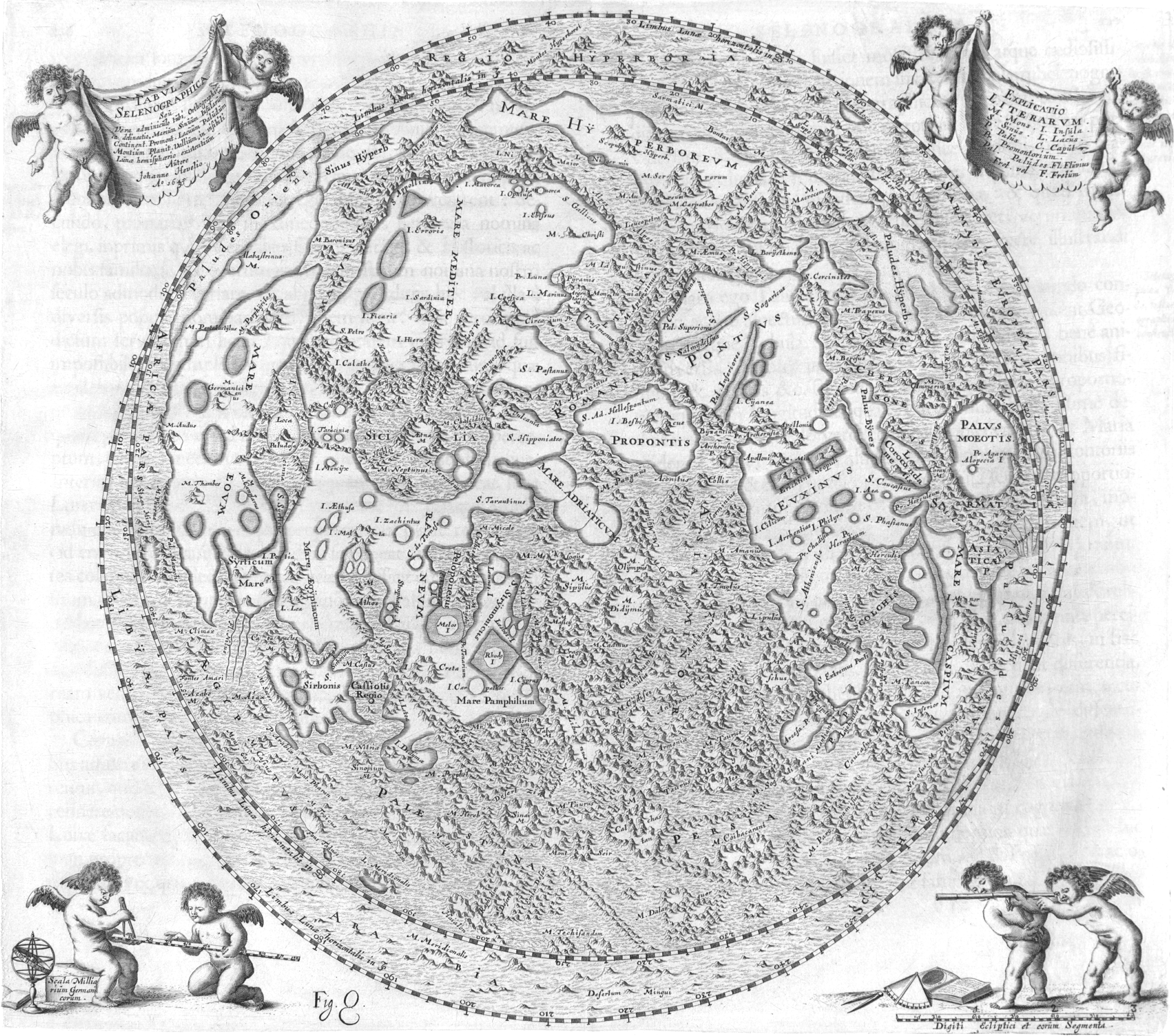 Map of the Moon from Selenographia, sive Lunae descriptio (1647)